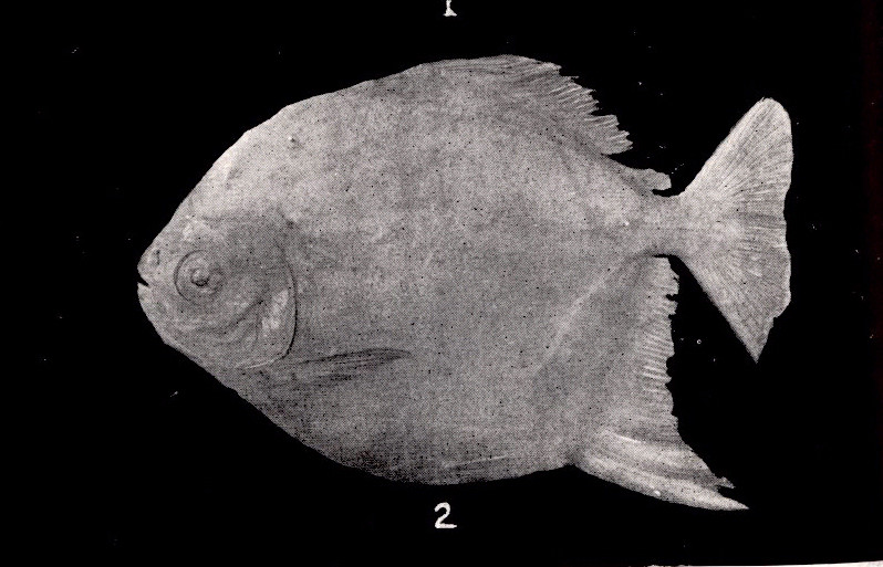 Myleus levis Eigenmann and McAtee Subject: Characidae Tag: fish